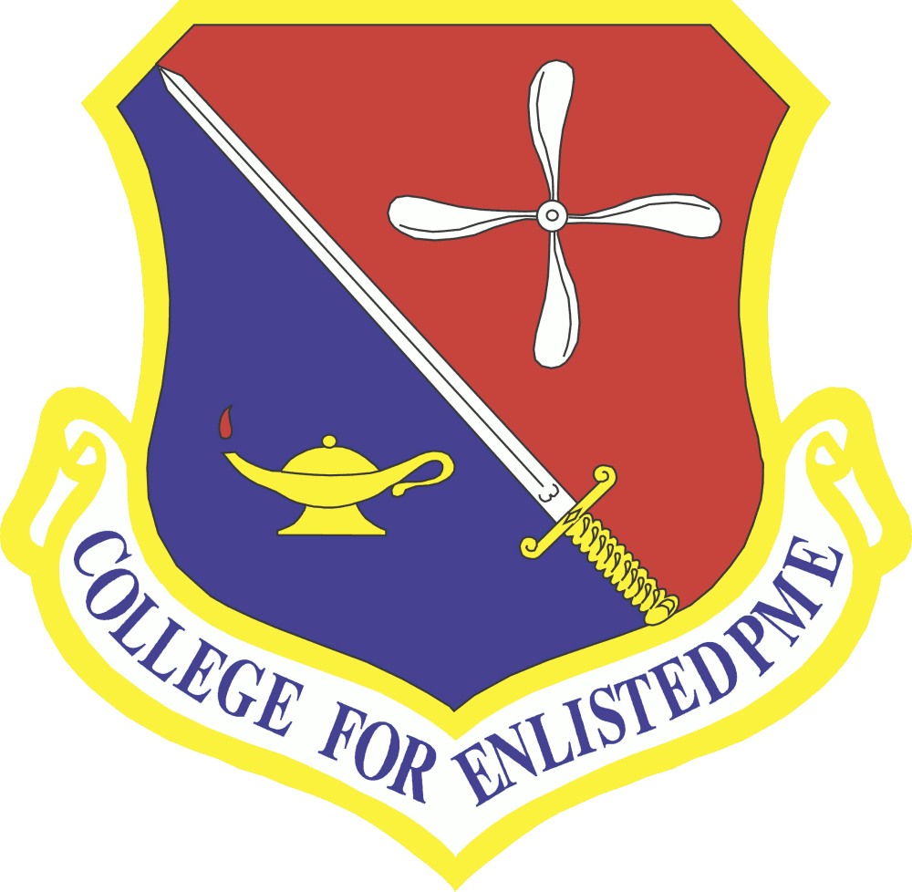 Emblem of the College for Enlisted Professional Military Education of Air University of the United States Air Force